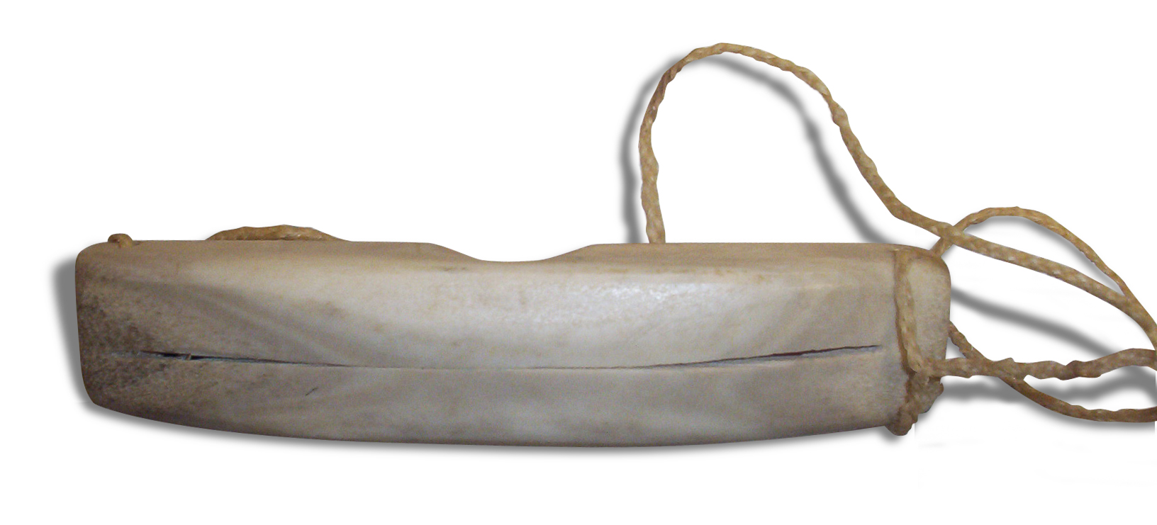 Inuit goggles made from caribou antler with caribou sinew for a strap.